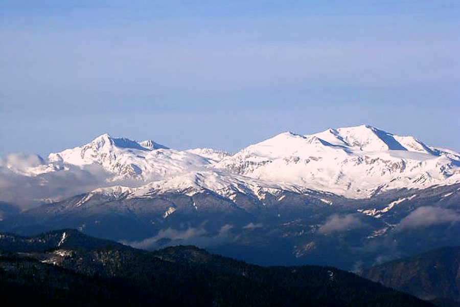 Mount Oshten and Fisht